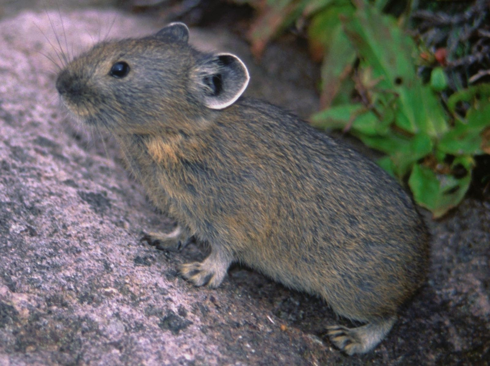 Ochotona hyperborea yesoensis in Mount Nipesotsu